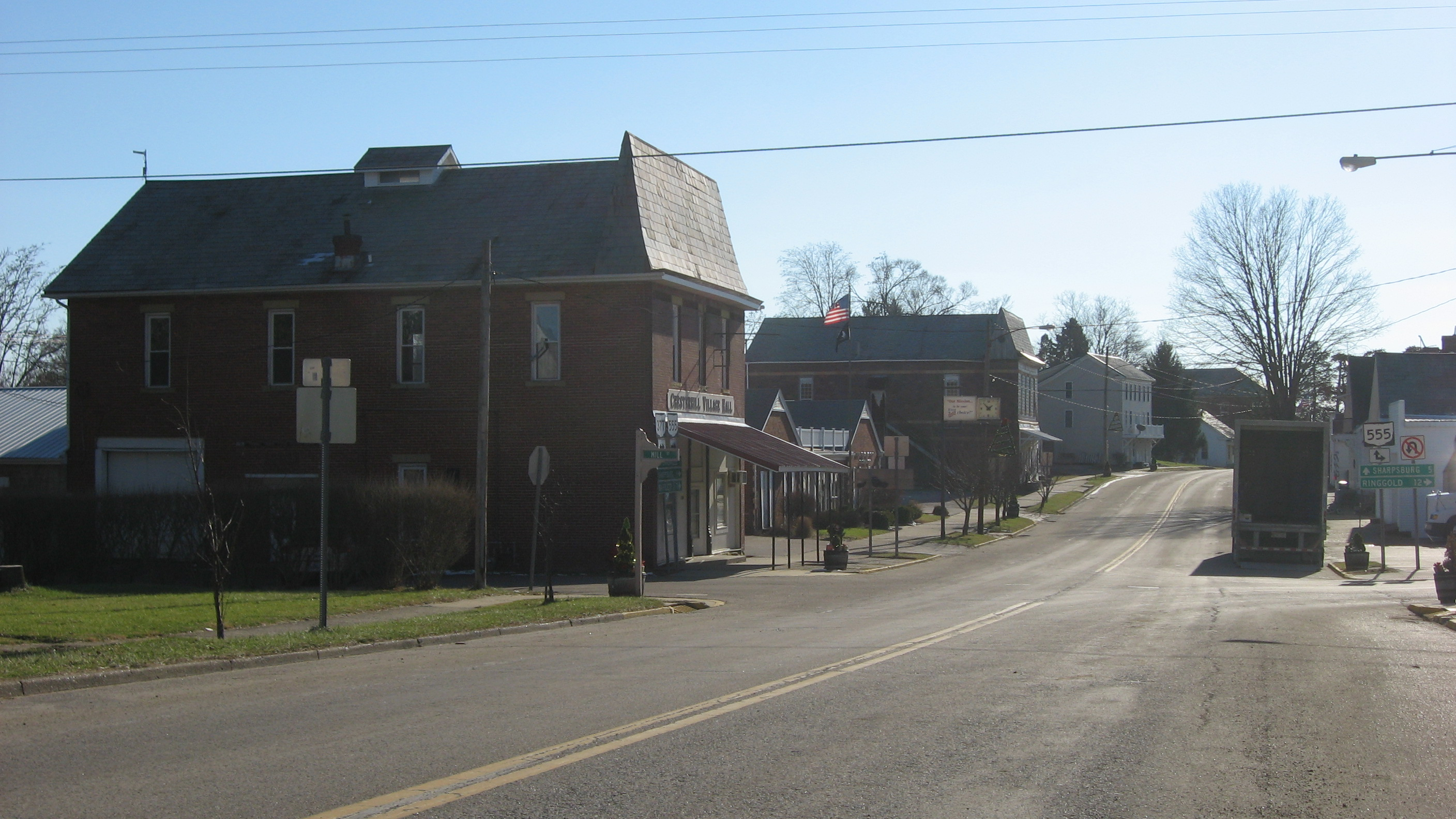 Looking southward along Marion Street (State Route 377) at the Mill Street (State Route 555) intersection in Chesterhill, Ohio, United States. Among the buildings visible herein is the village hall, located closest to the camera.